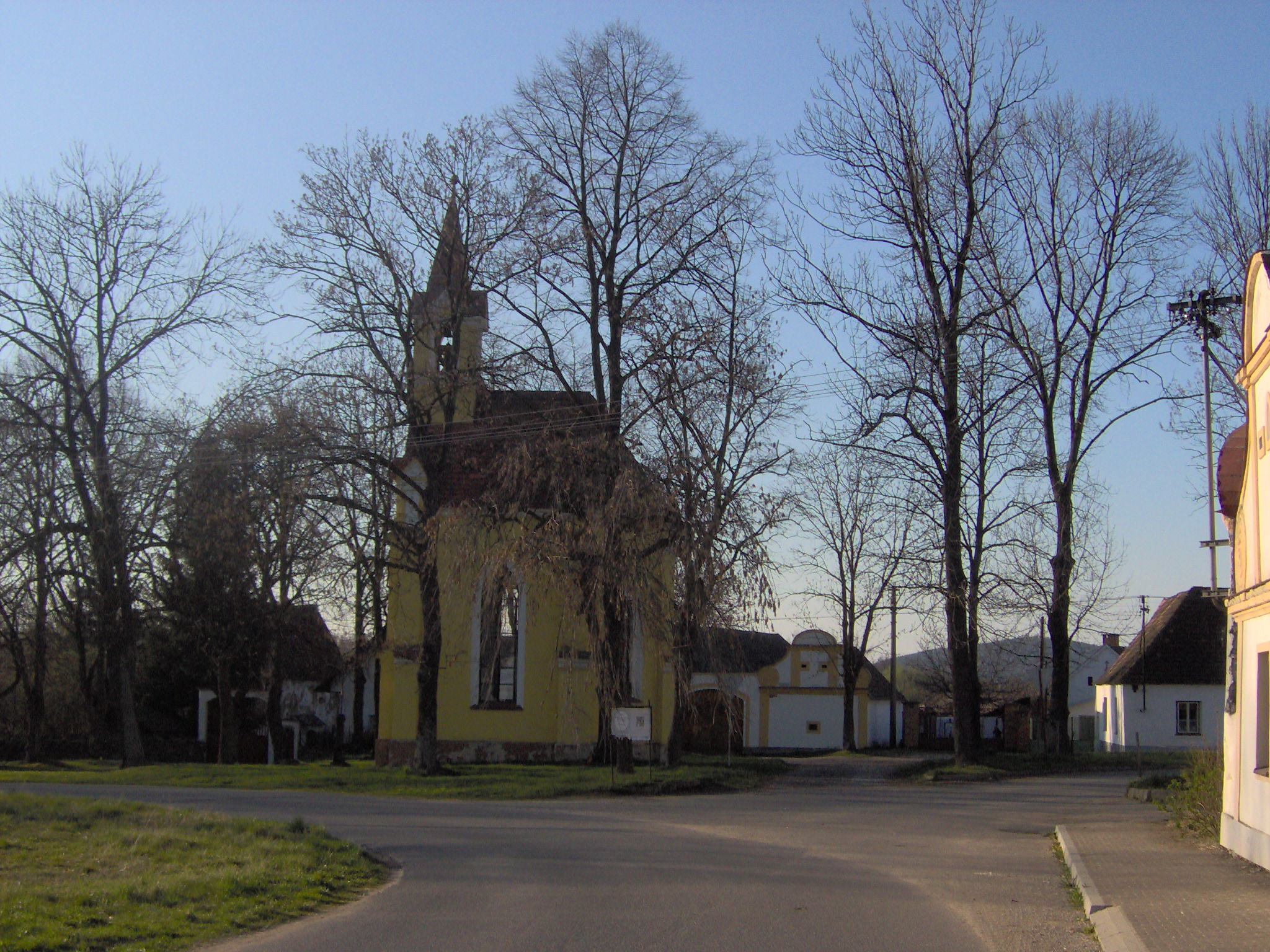 Chapel in Radošovice, Strakonice District, Czech republic